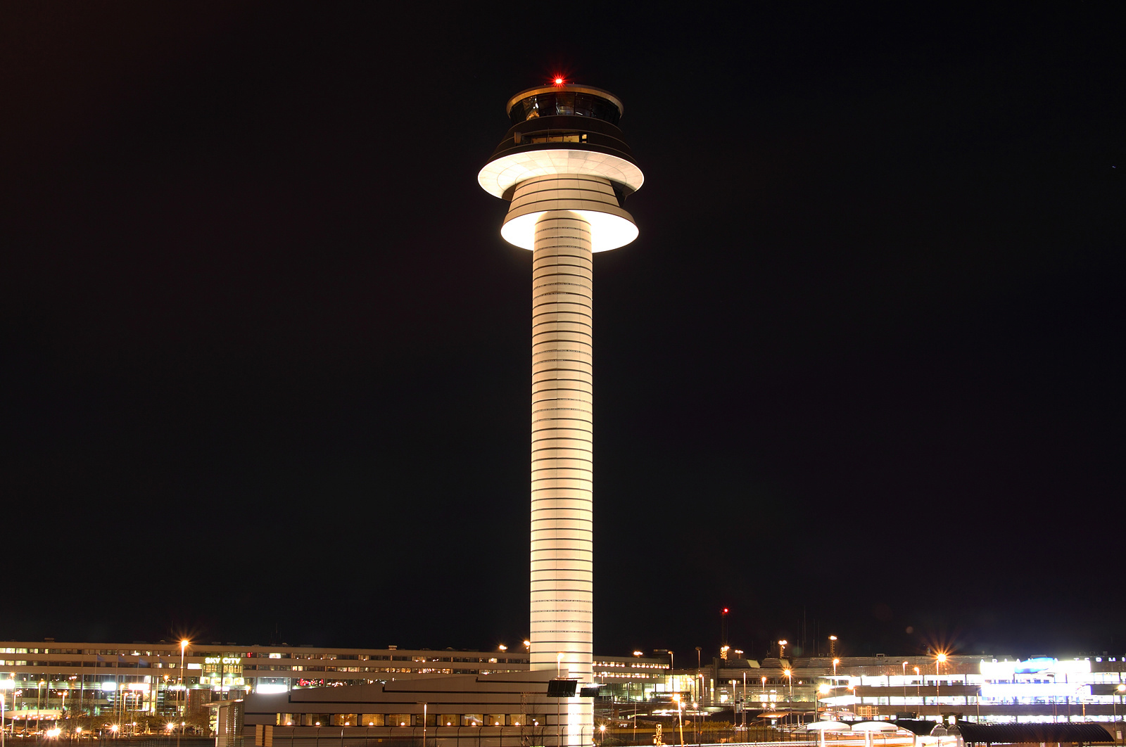 Stockholm Arlanda Air Traffic Control Tower at night